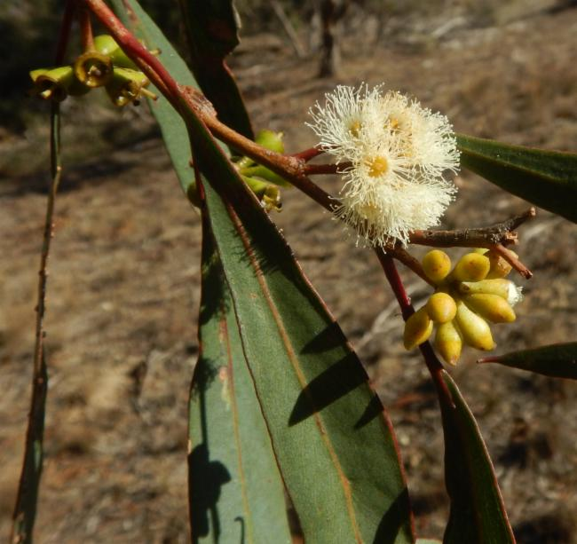 Flower buds of Eucalyptus odorata near Tatiara, South Australia